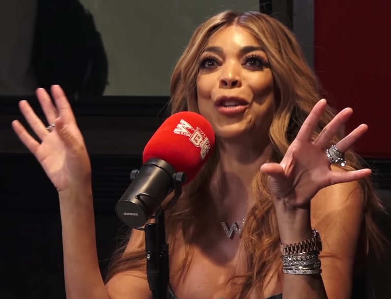 "Wendy Williams Returns To WBLS To Talk Season 10 of Her Show & Circle Of Sisters 2018"